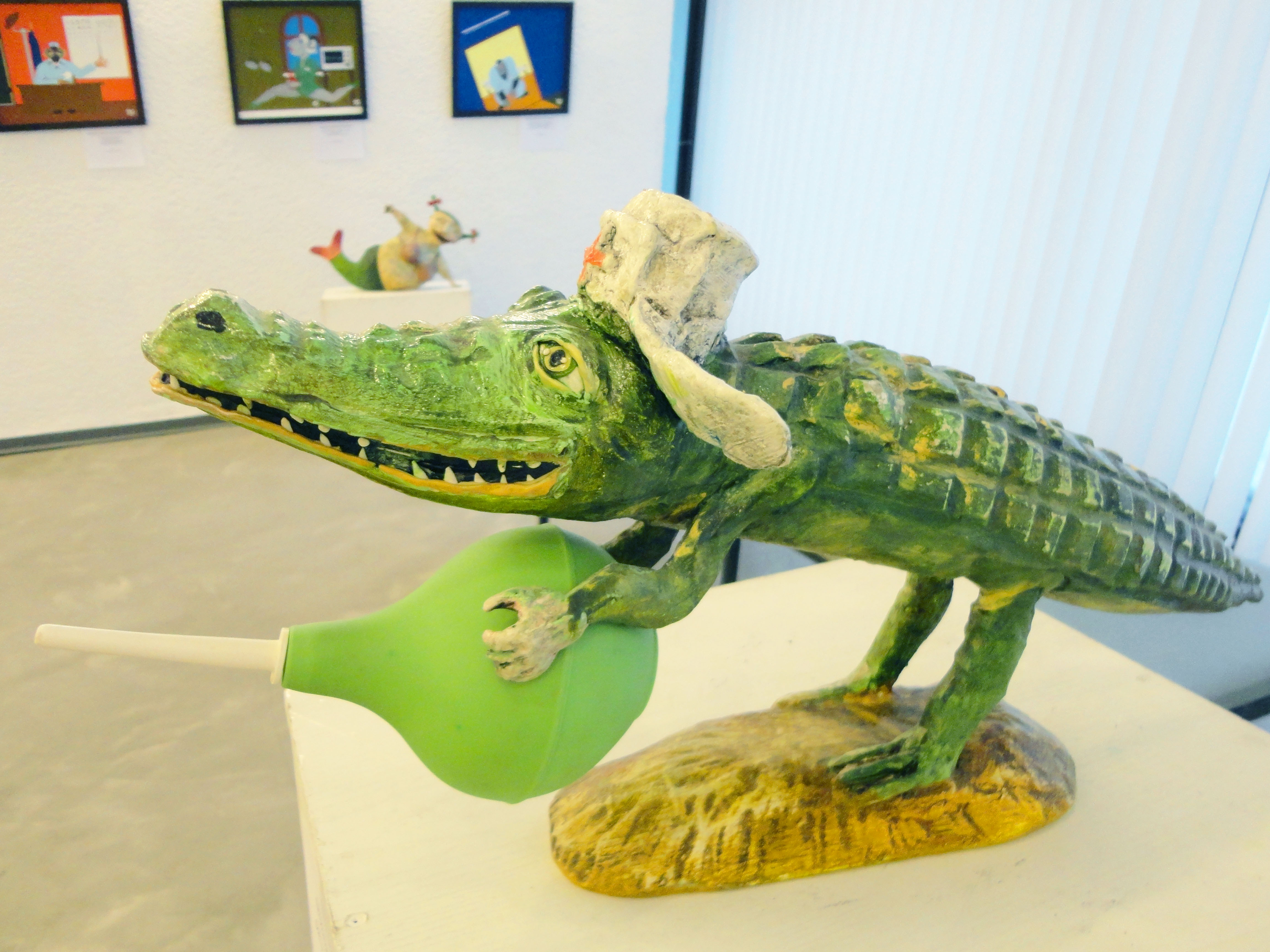 Sculptor G.Stolbchenko- animal_doctors-exhibition-2012